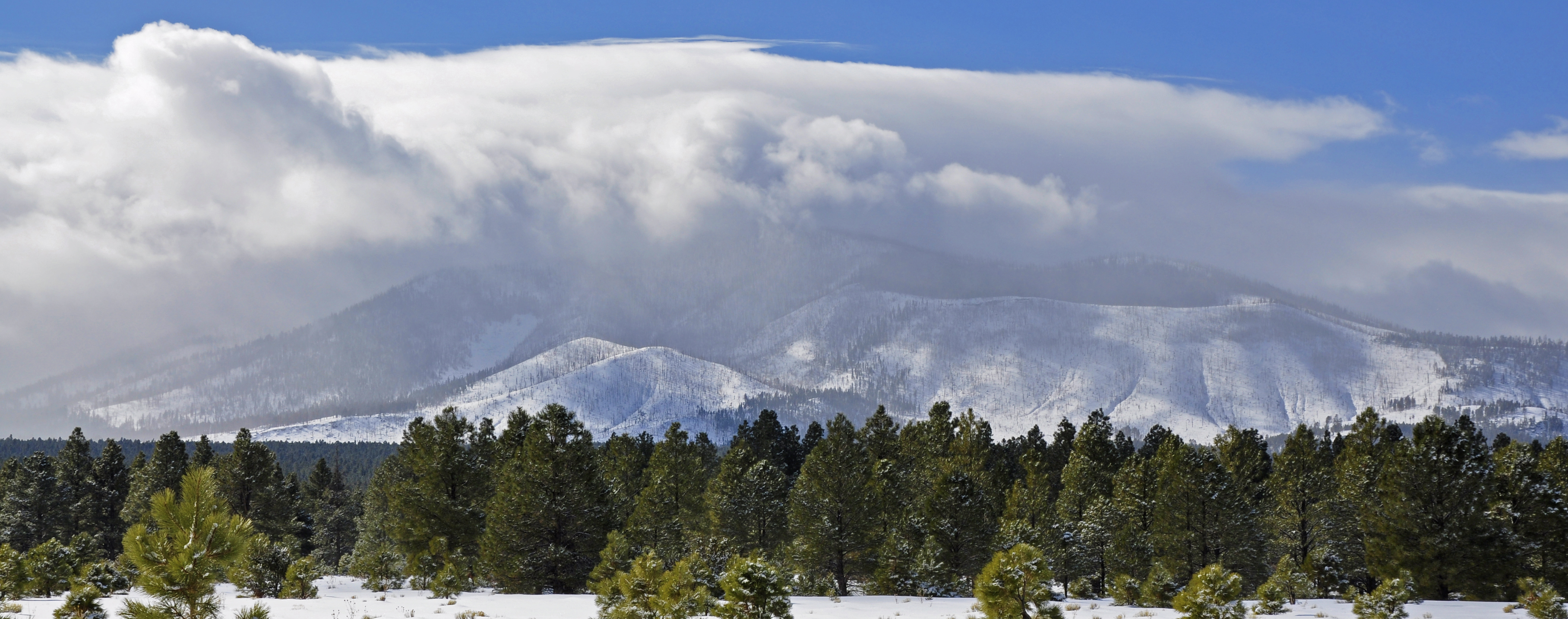 Kendrick Peak, Arizona in the winter. Taken on 12-29-09 by Brady Smith. Credit: USDA Forest Service, Coconino National Forest.